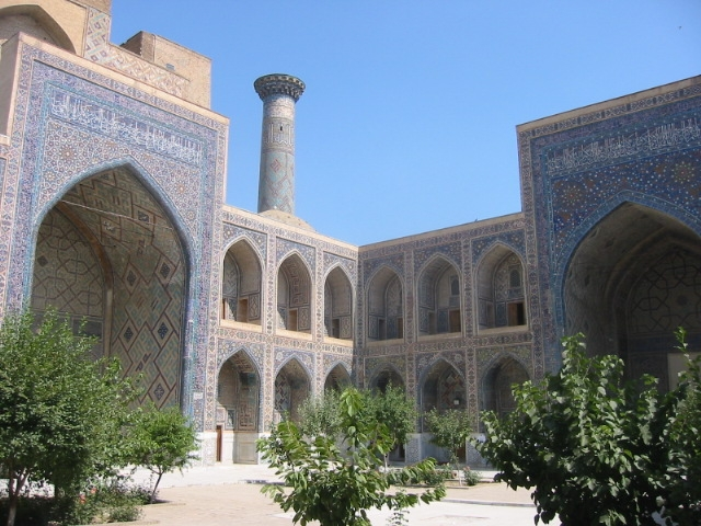 Samarkand (Uzbekistan) : Registan inner courtyard